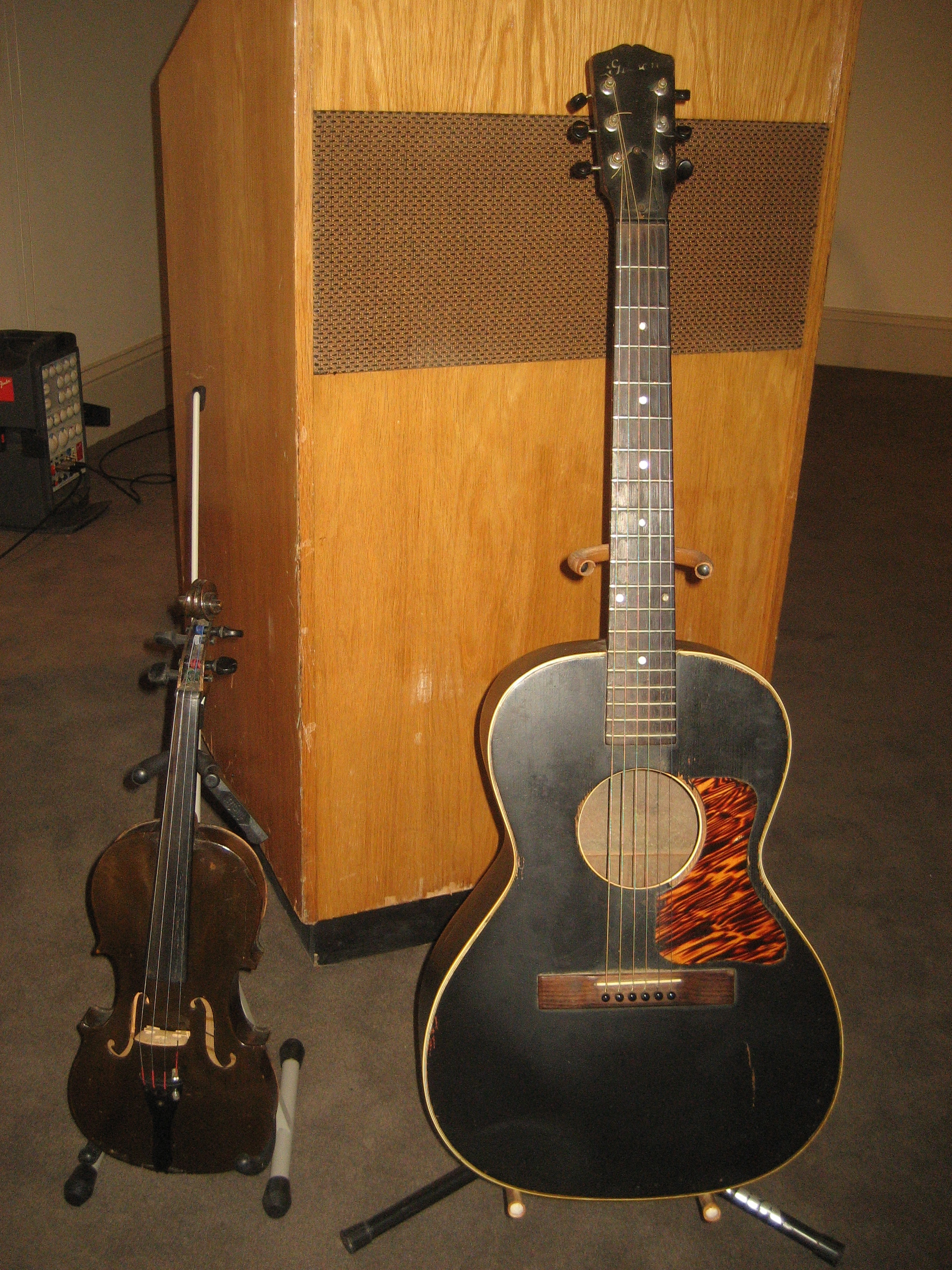 Violin and guitar formerly owned by jazz legend Snoozer Quinn, still owned by the Quinn family, on display at presentation on Snoozer Quinn at the Old Mint Museum, New Orleans. Violin Gibson L-0 or L-00 (more pictures)